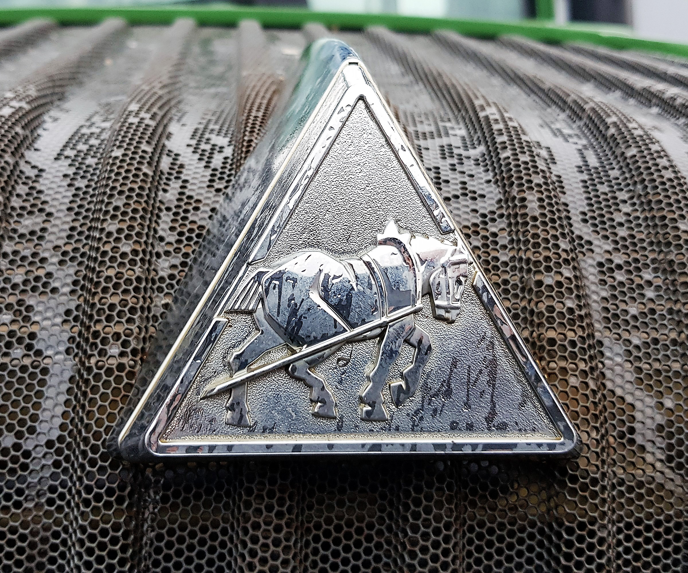 Badge of the tractor manufacturer Fendt.